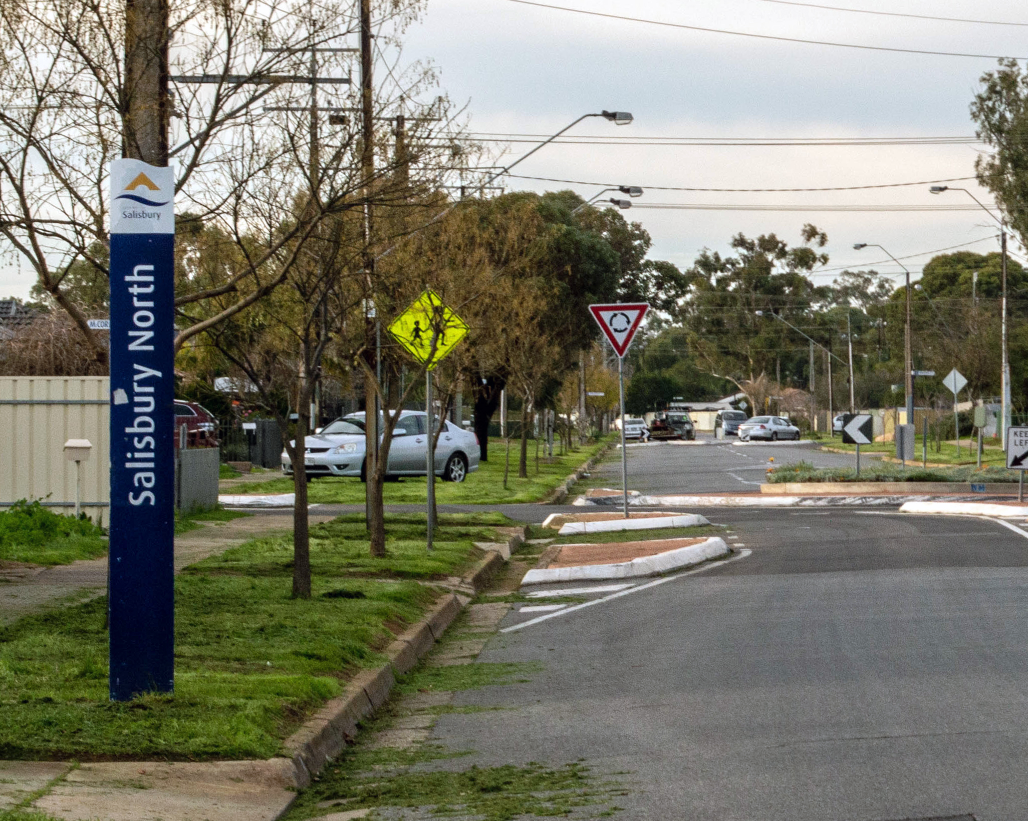 Municipal border sign marking the suburb of Salisbury North, South Australia.